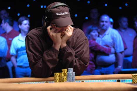 Hellmuth at WSOP Circuit 2006